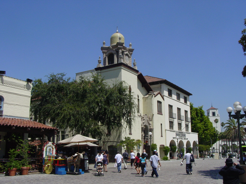 Photo of Olvera Street, Los Angeles.